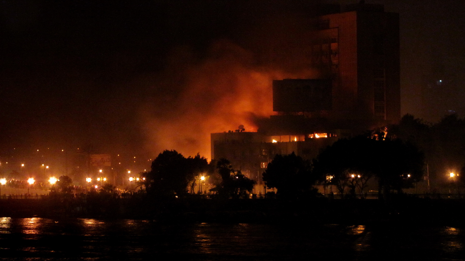 The main headquarters of the National Democratic Party after being set on fire during the 2011 Egyptian protests.